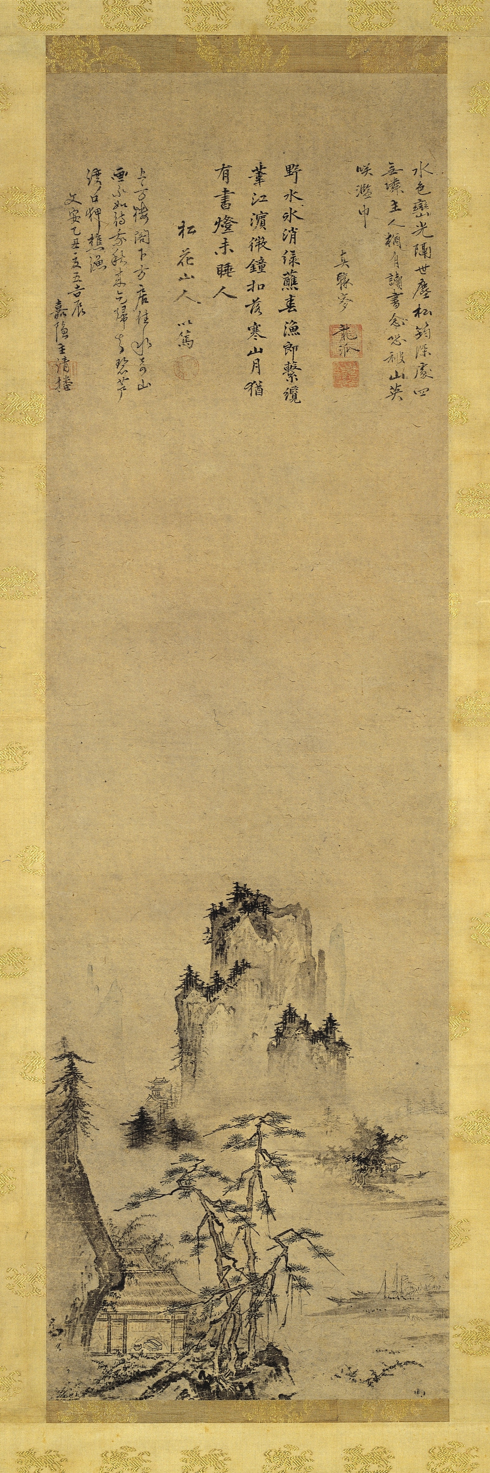 Landscape (紙本墨画淡彩山水図, shihon bokuga tansai sansuizu). Hanging scroll, 108 cm x 32.7 cm. Ink and light color on paper. Located in the Nara National Museum, Nara, Japan. The scroll has been designated as National Treasure of Japan in the category paintings.